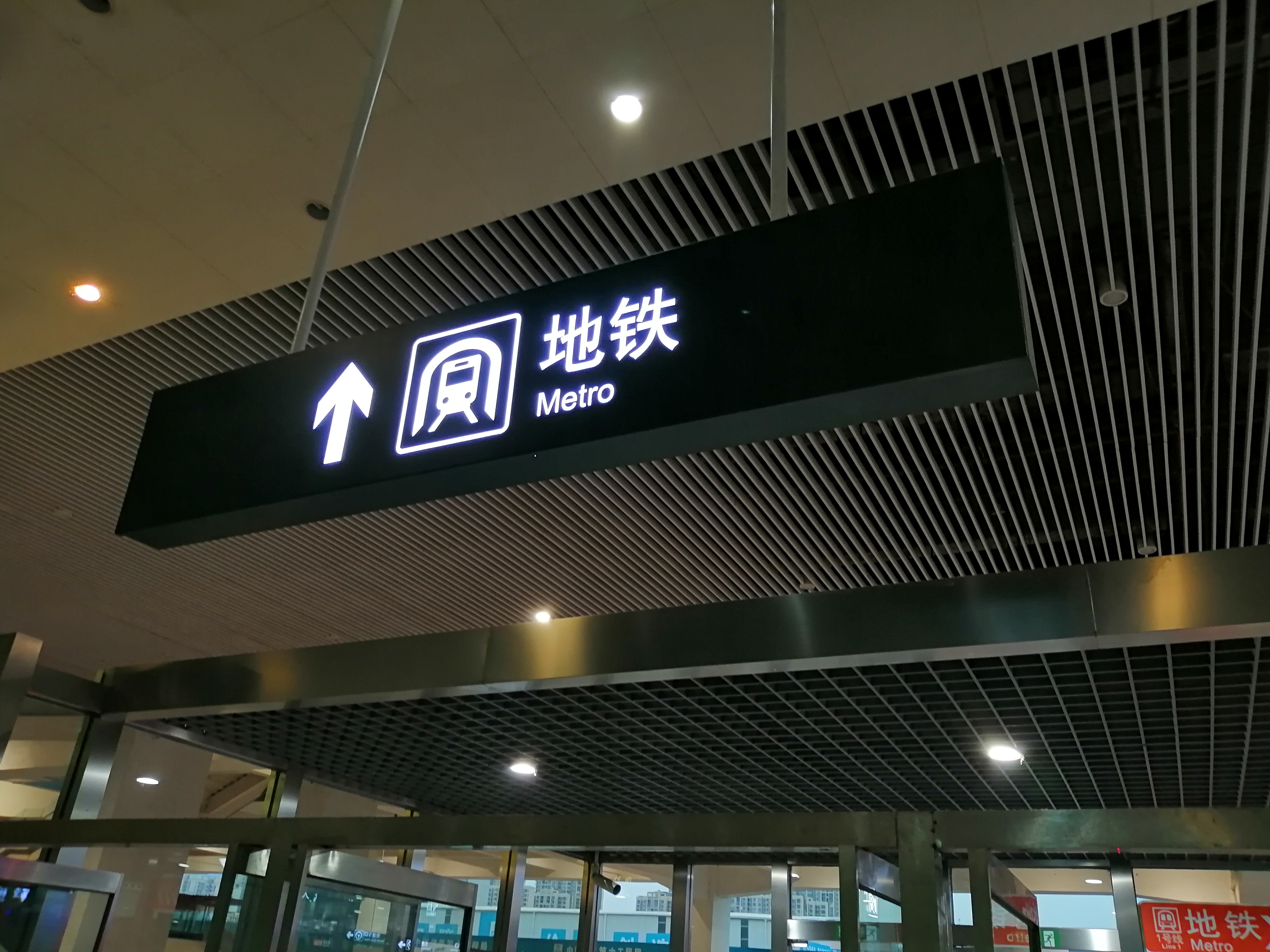 The metro access without security check of Xiamen North Railway Station, with "Metro special access" announcement. 中文（中国大陆）: 厦门北站的地铁免安检进站通道